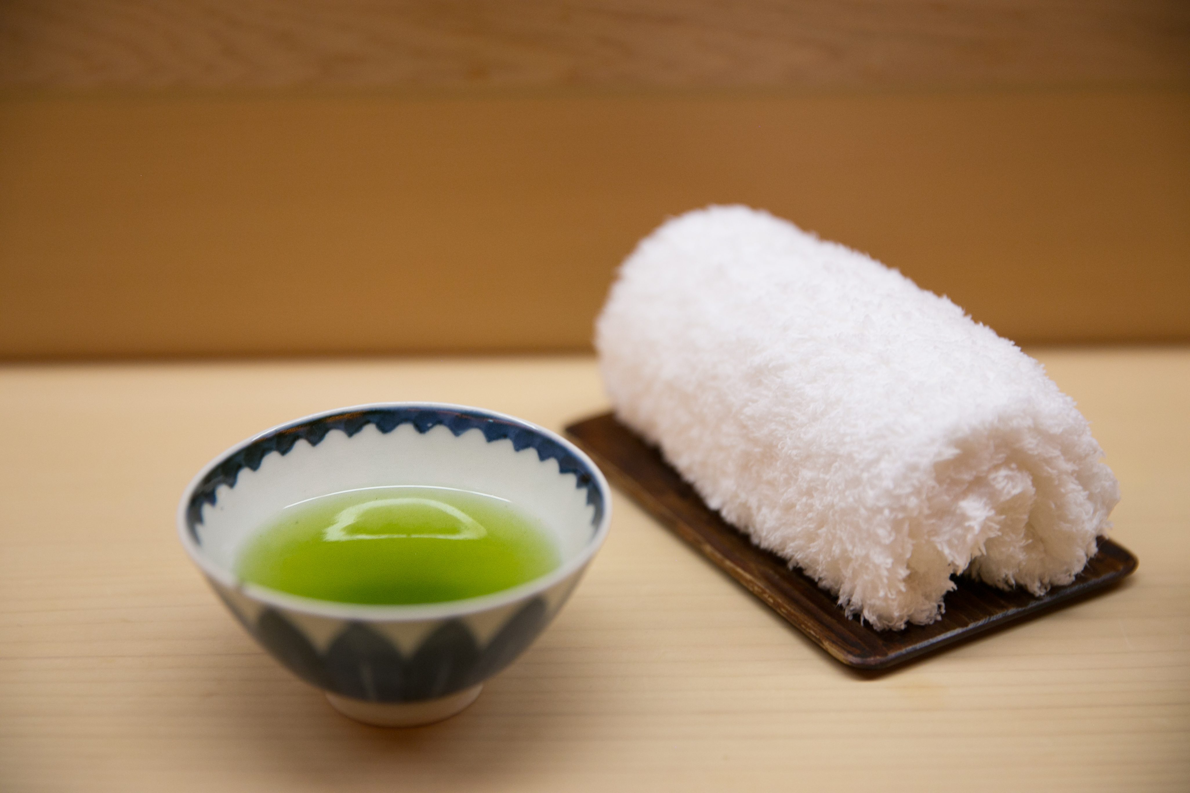 Matsukawa, Tokyo, JP Date Visited: March 27, 2015 City Foodsters Facebook | Twitter | Instagram